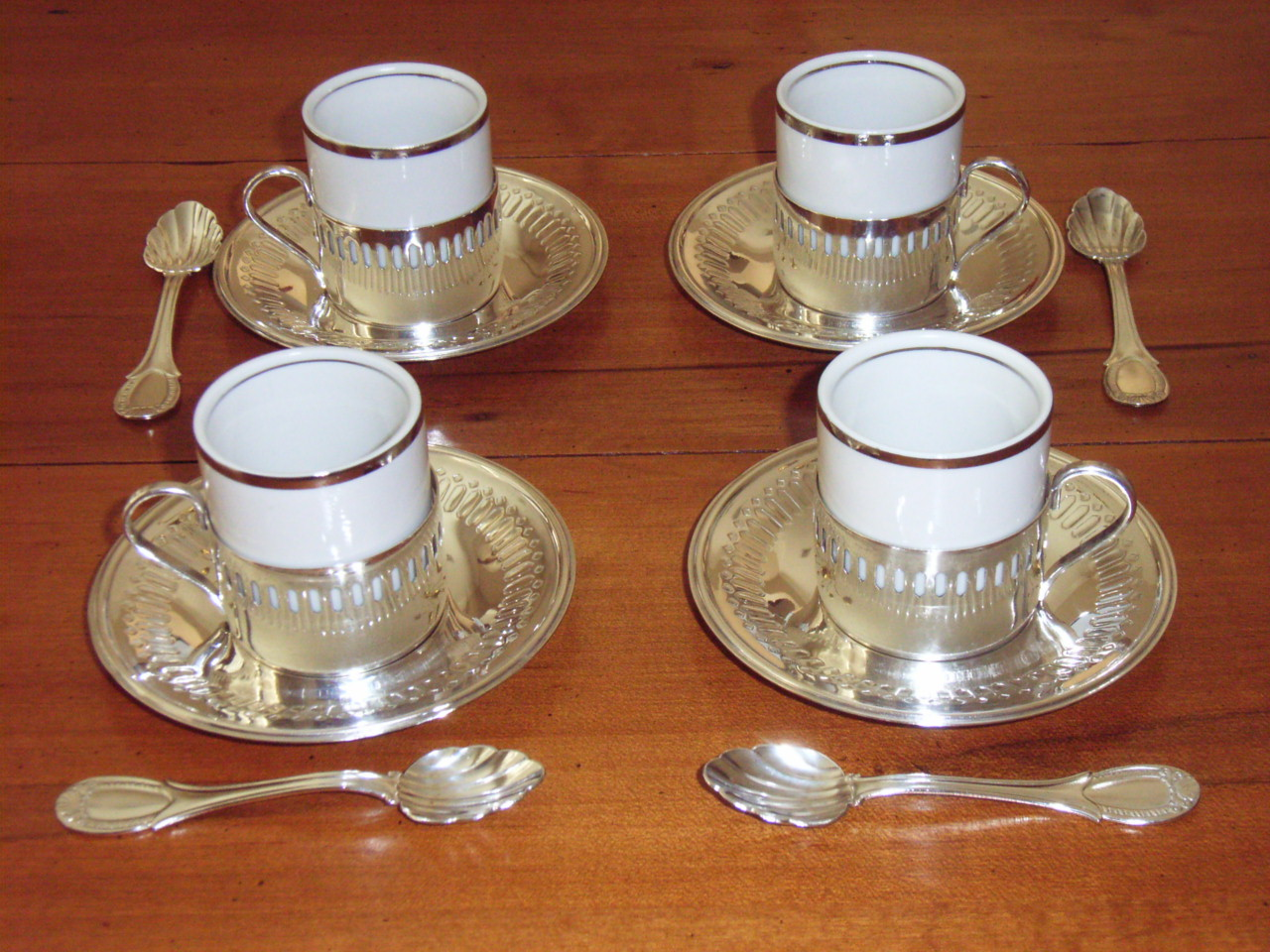 Set of 4 white porcelain demitasse cups in metal frames, with matching spoons.